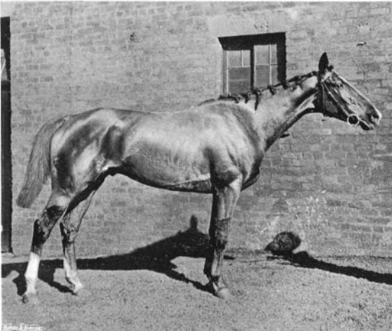 Kirkland, winner of the 1905 Grand National.